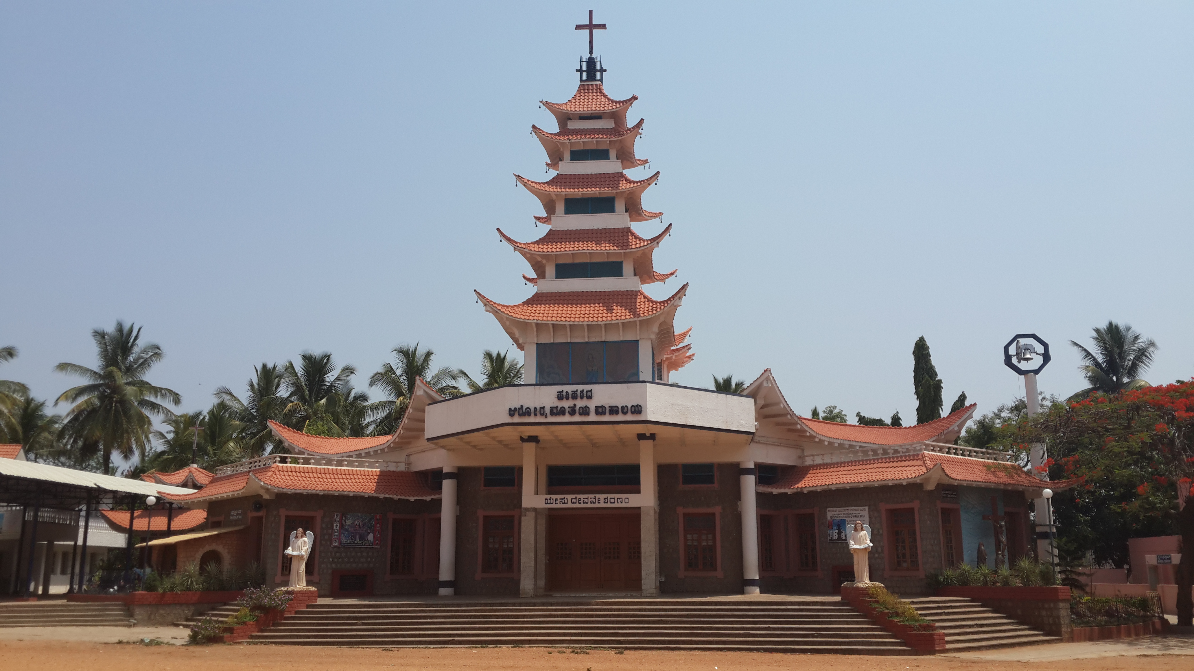 Harihara church